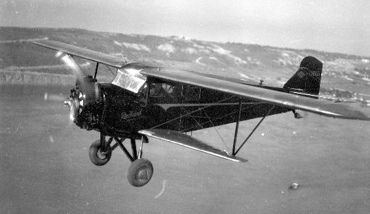 Catalog #: 00040387 Manufacturer: Buhl Designation: Airsedan CA-3 Official Nickname: Notes: Haase Collection Repository: San Diego Air and Space Museum Archive